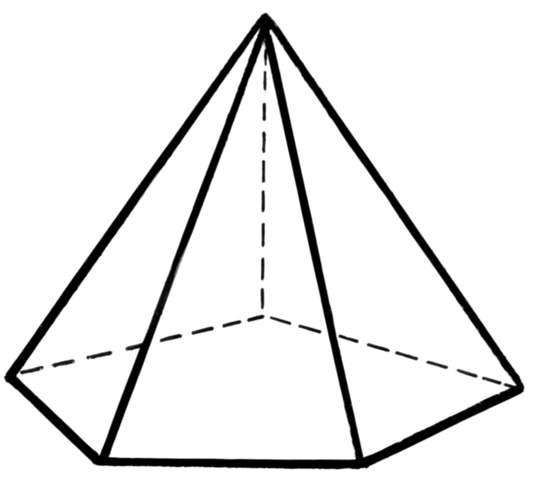 Line art drawing of polyhedron.